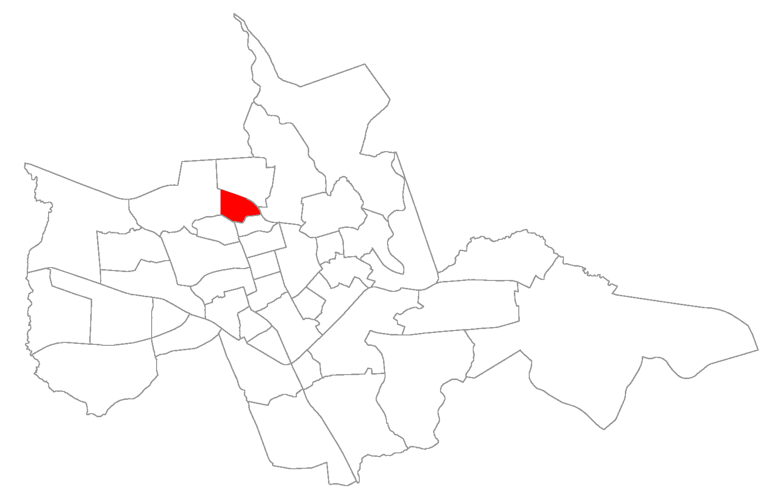 Neighborhood/district of Santa Maria, Rio Grande do Sul